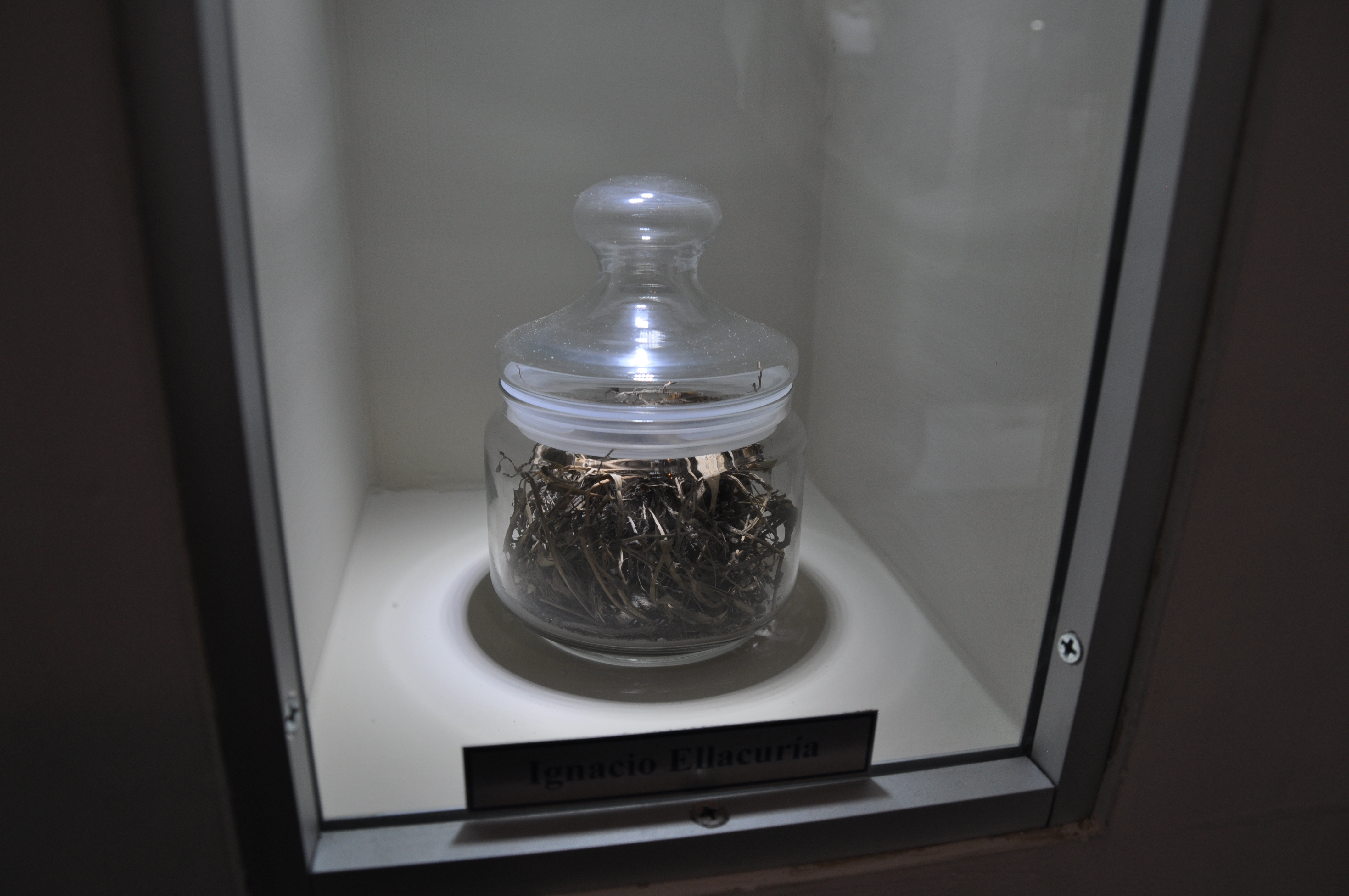 Ignacio Ellacuria ashes. UCA. Sala de Mártires. El Salvador